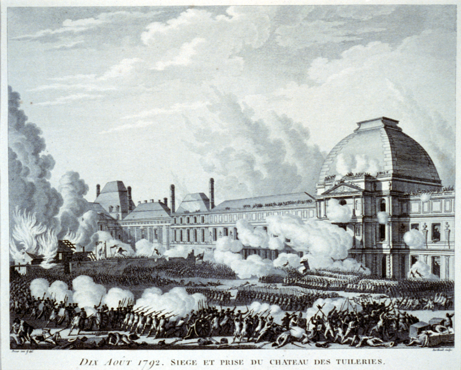 "Dix Aoú̀t 1792. Siege et prise du Chateau des Tuileries": French soldiers and citizens storming the castle of the Tuileries to get the royal family and end the monarchy. Engraving (plate no. 67) published in Collection complète des tableaux historiques de la révolution francaise. Paris : chez Auber, 1804.